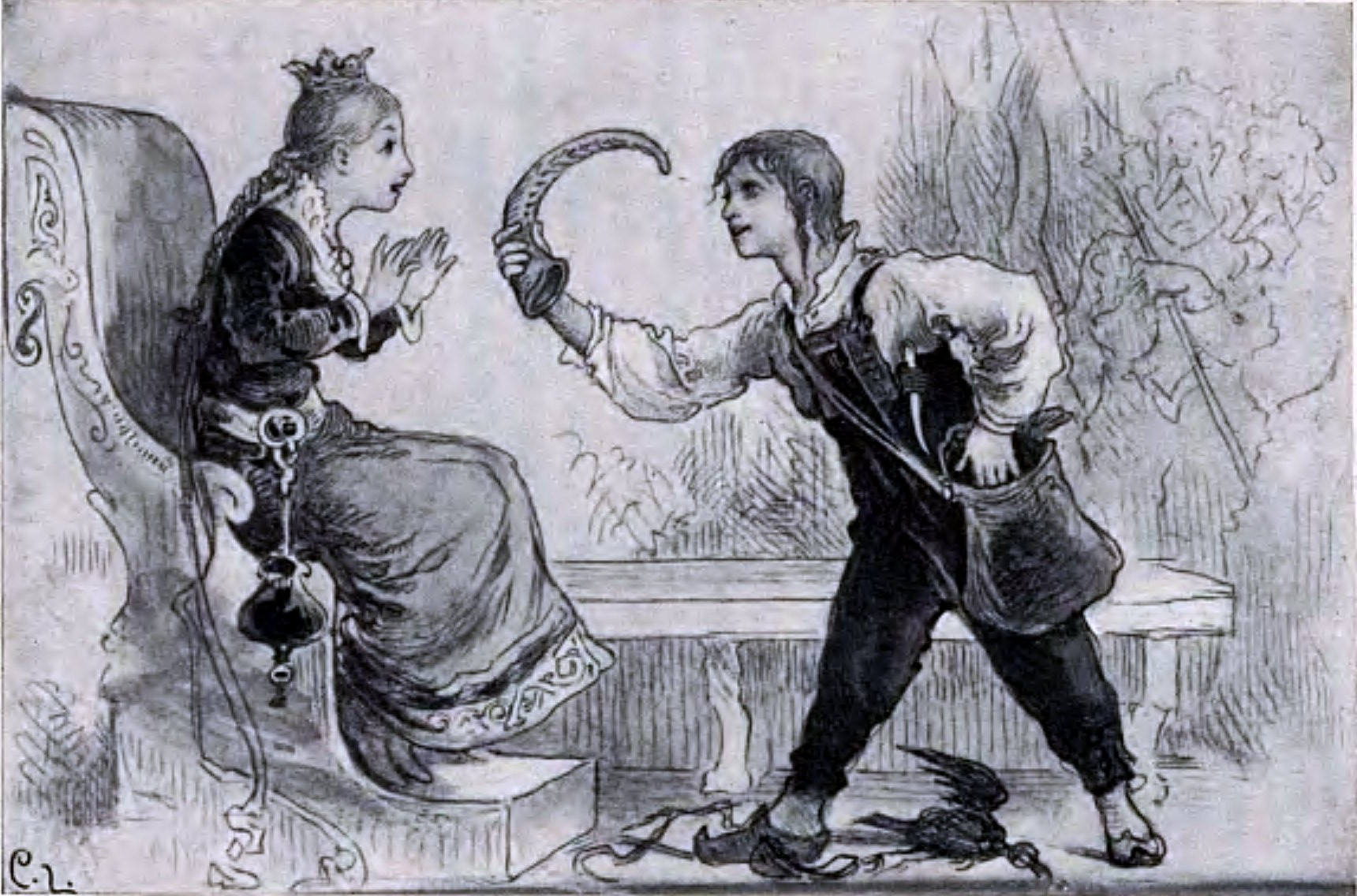 Illustration by Carl Larsson of the book "Folksagor" by Asbjörnsen and Moe, Stockholm 1927